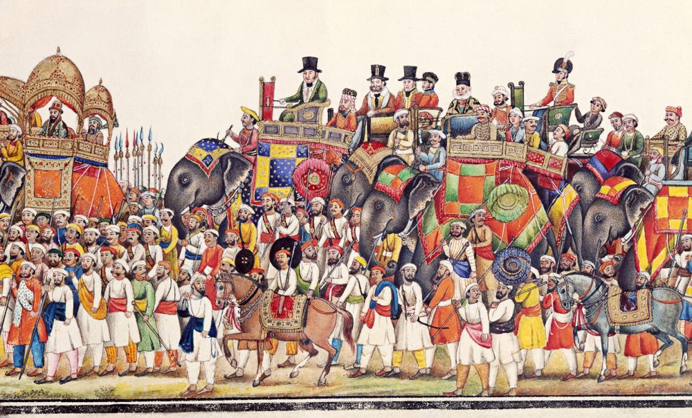 Procession on the occasion of a Durbar (audience) of the Great Mogul Akbar II. (1760-1837), which was probably held on Id or after Ramadan. In the wake of the monarch, who was from 1806-1837 Mughal Emperor of India, there are his sons, high Indian and British dignitaries and army troops. The procession includes elephants carrying the royal insignia (standards with sun, umbrella, fish etc.), also palanquins and closed bullock-carriages for the ladies, camels, horses and gun-carriages. Detail of a gouache (16 cm x 239 cm), which was made around 1815 by an unknown artist from Delhi.